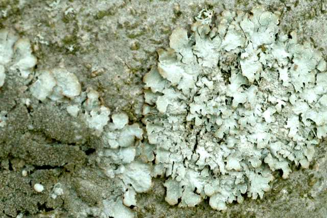 Parmelia saxatilis from Commanster, Belgium. If you think this is a different taxon, please contact James Lindsey.